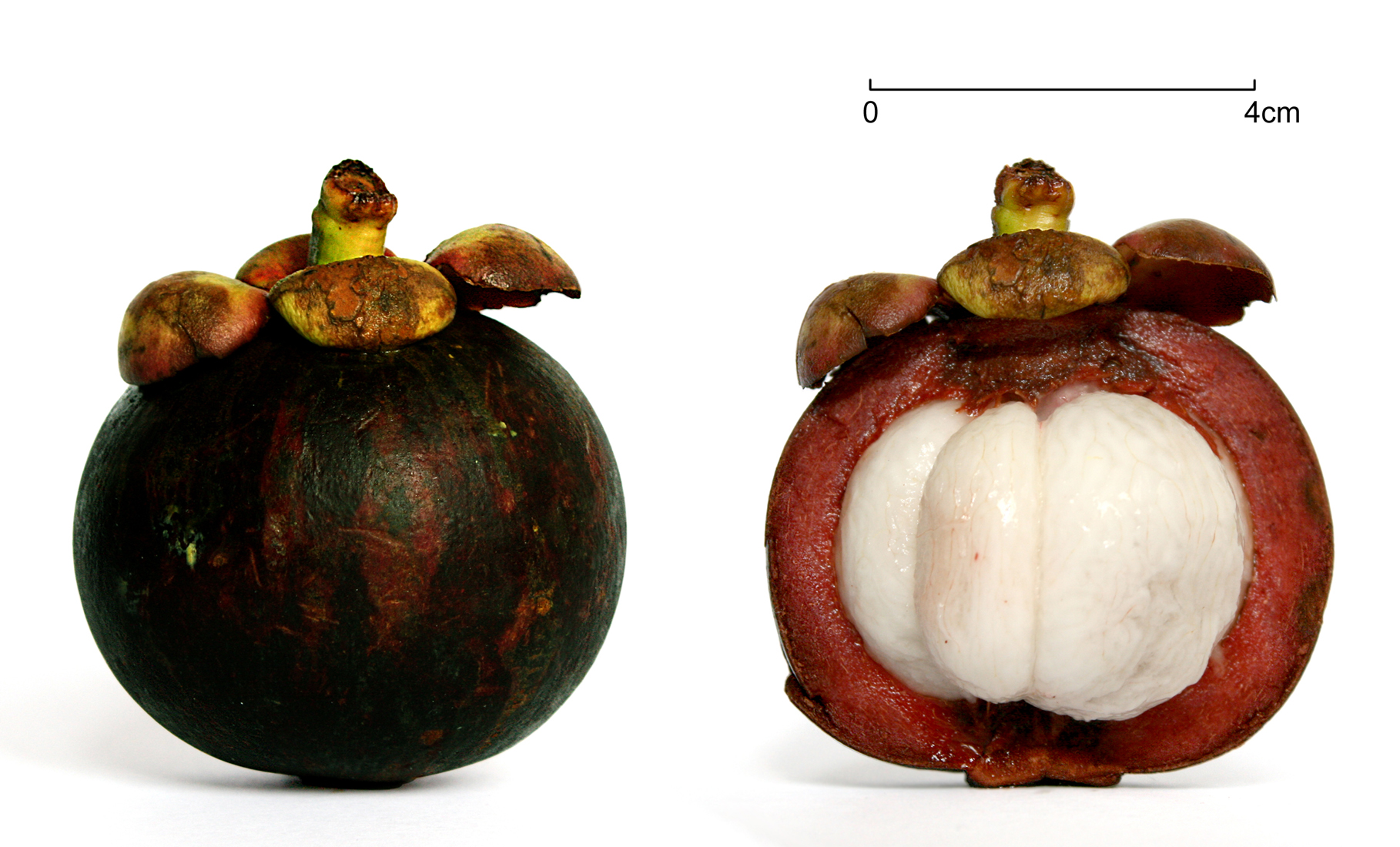 Purple mangosteen fruit (Garcinia mangostana), together with its cross section.